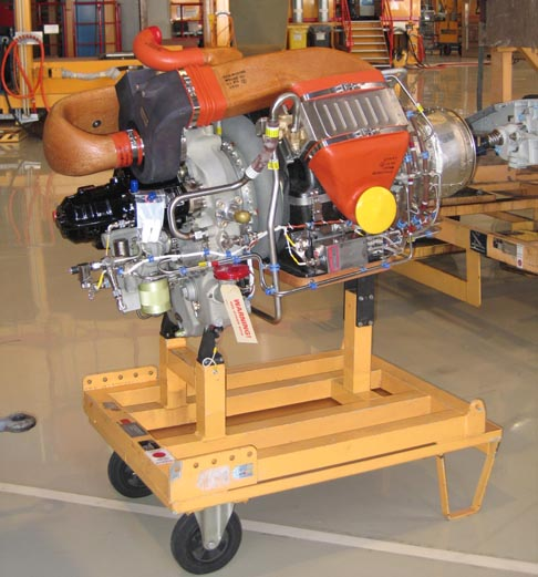 An APS3200, the Auxiliary power unit for an aircraft of the Airbus A320 family. Manufacturer APIC/Hamilton Sundstrand in San Diego.